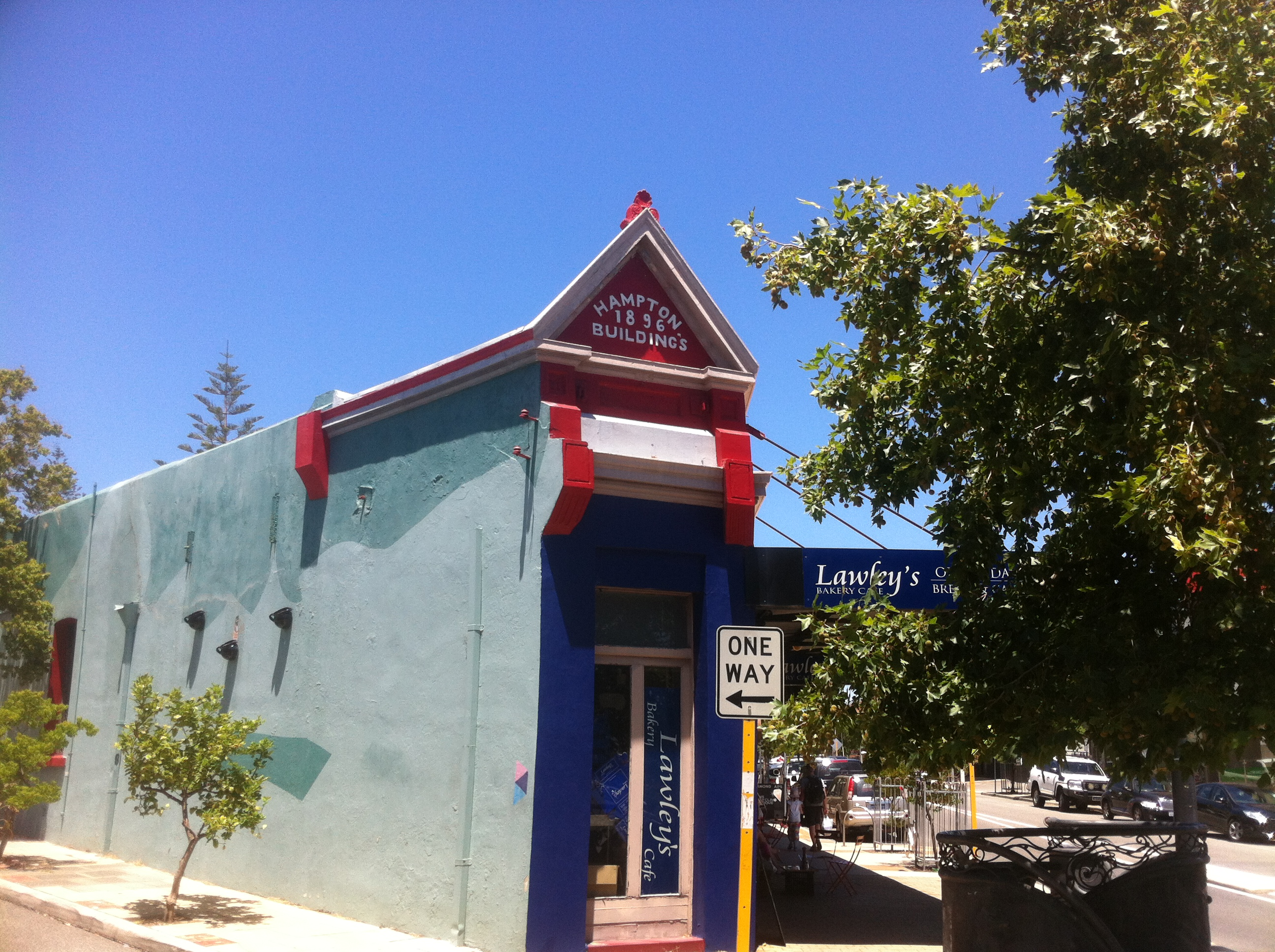 Hampton Buildings corner of South Terrace, Wray Avenue and Howard Street